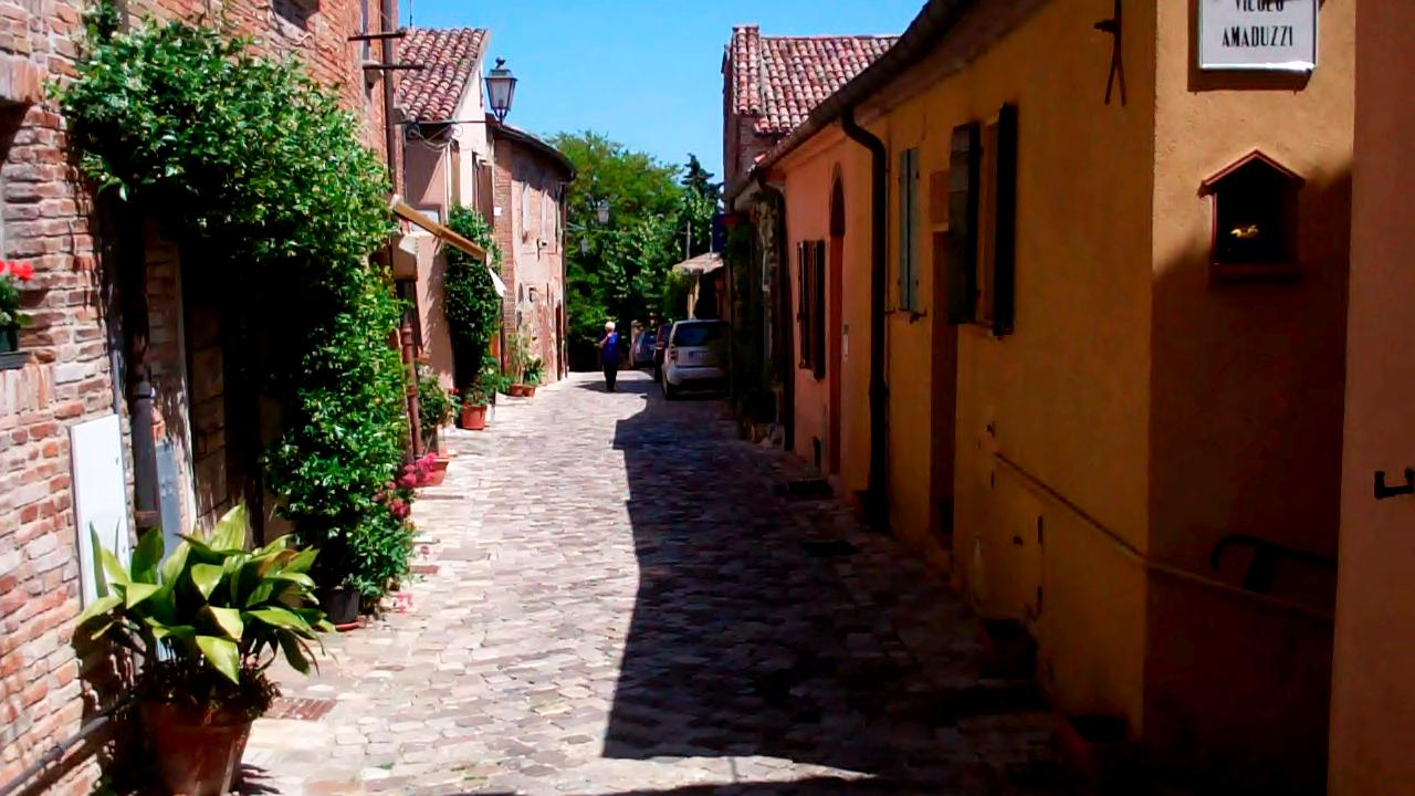 Narrow streets in the old town of Santarcangelo di Romagna